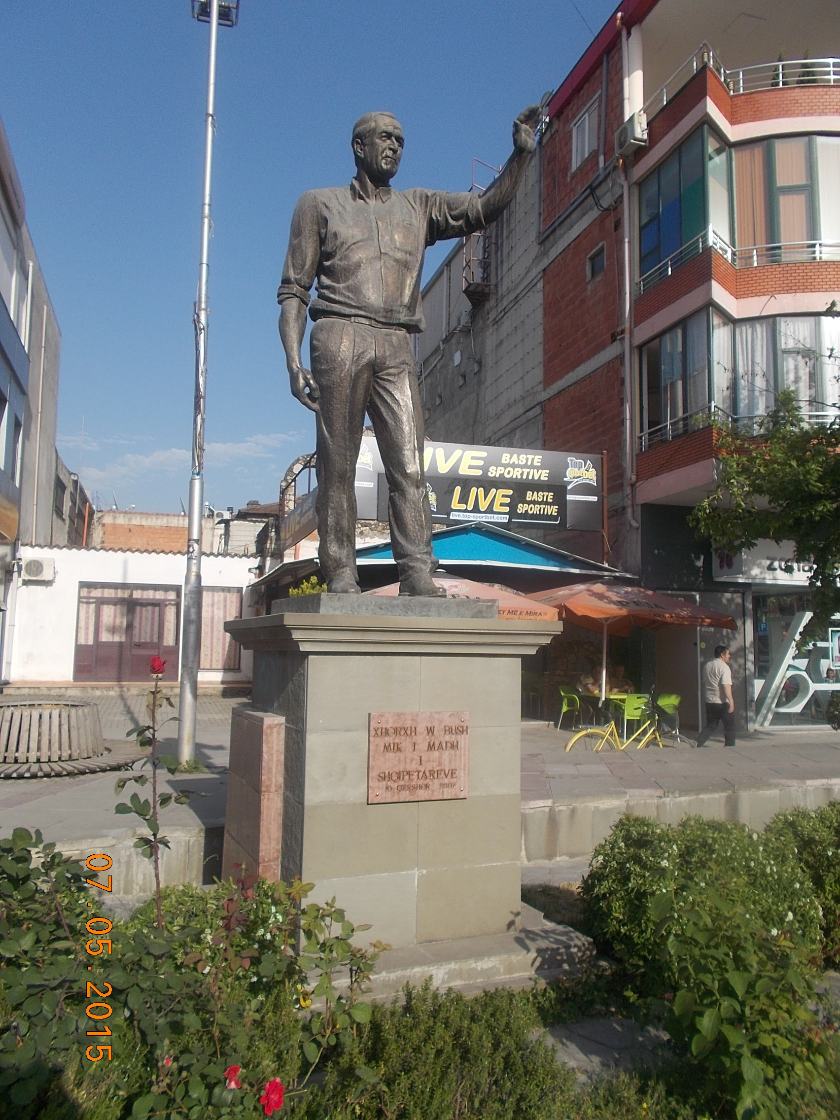 Statue of G.W.Bush at Fushë-Kruja, Albania